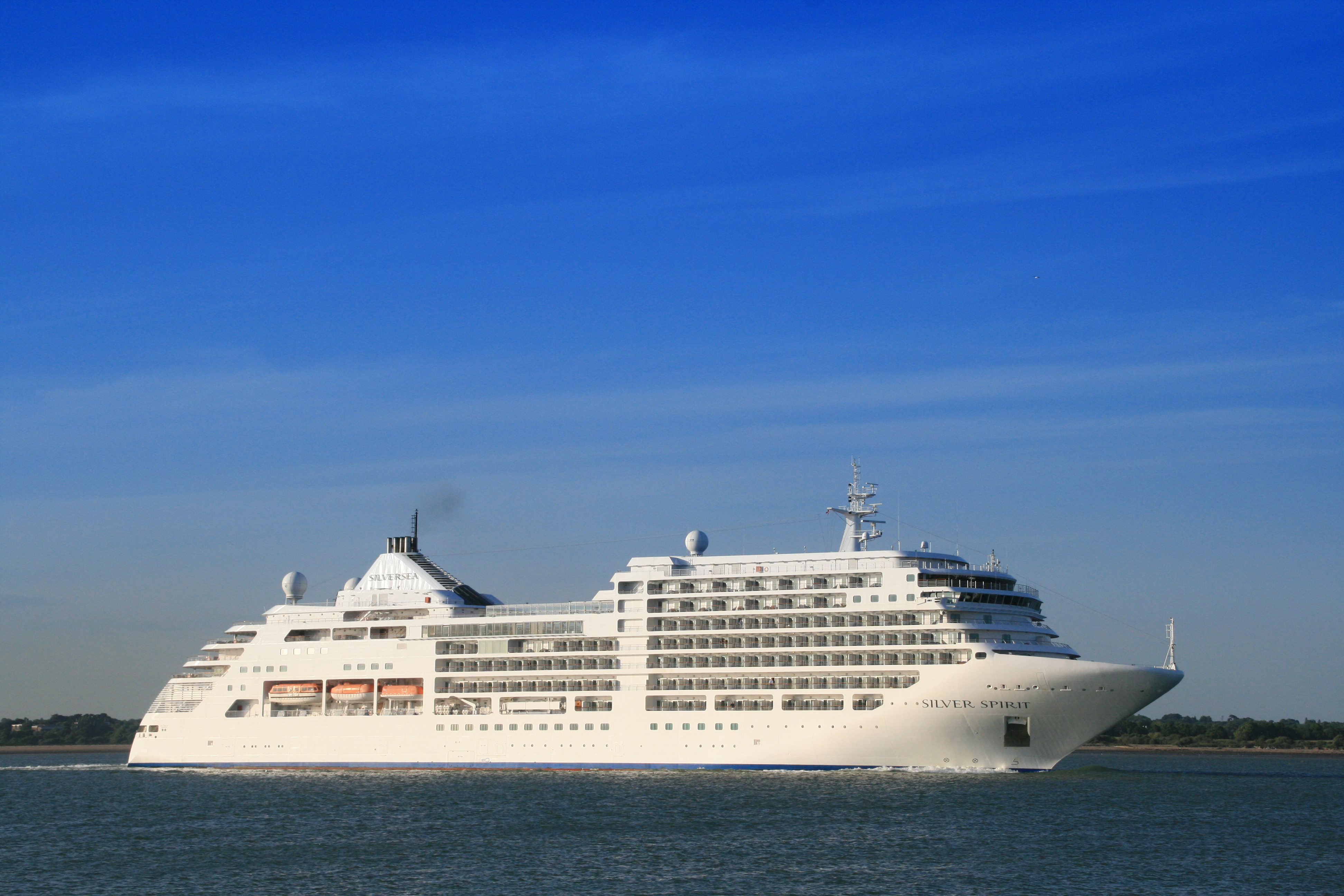 36,000 gross tons super-luxury cruise ship MV Silver Spirit outward bound from Southampton on 19 May 2011.